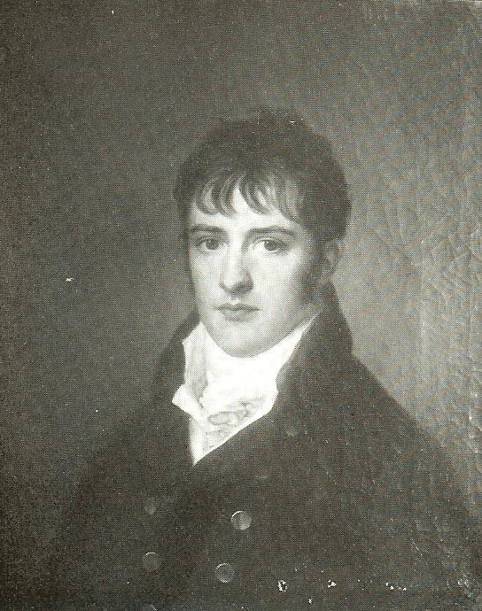 portrait of Carl Emil Rantzau